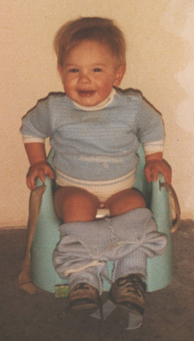 Candid Photo of Denis Dordoigne (Denis Dordoigne) on the throne.